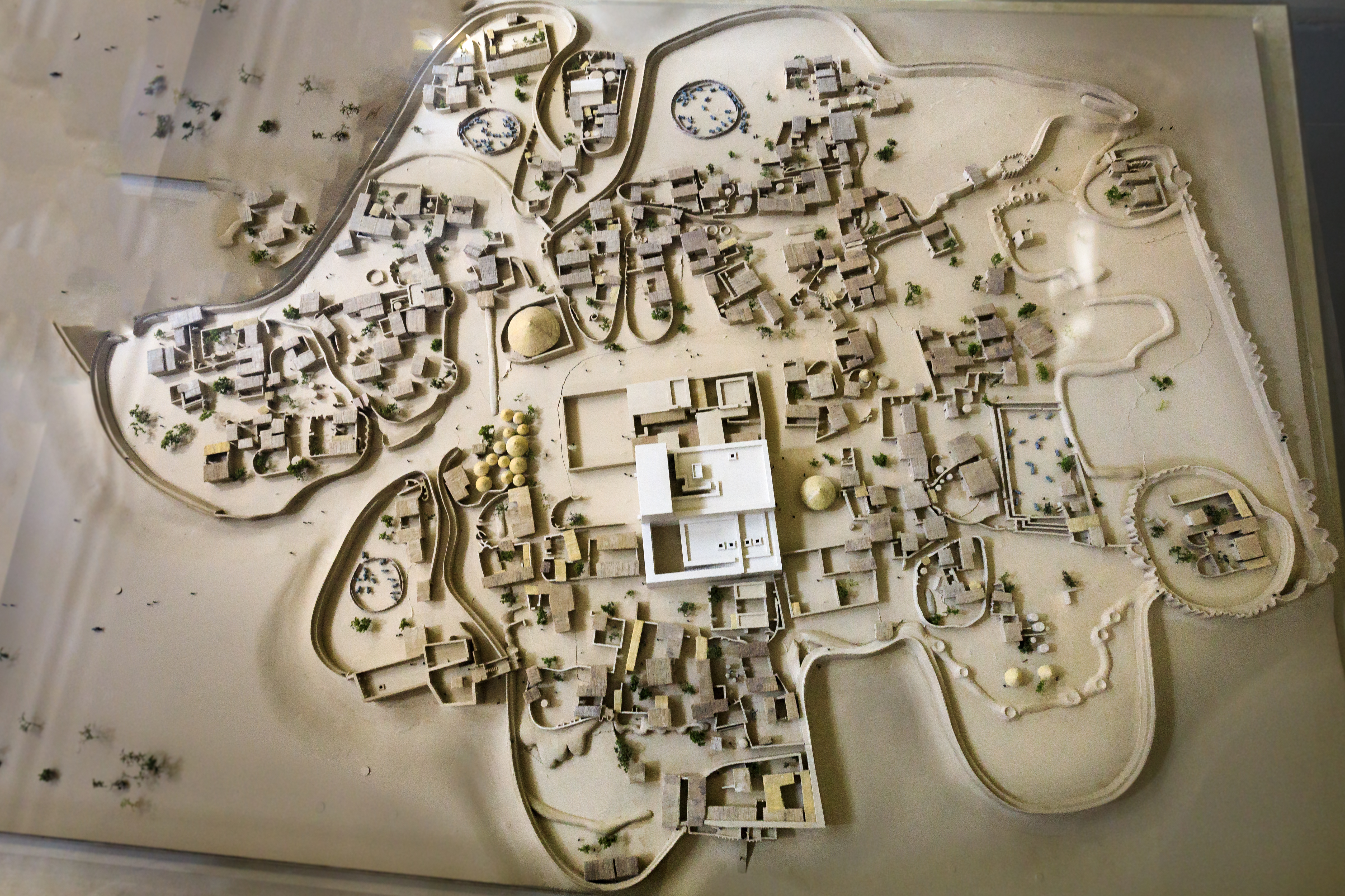 In the middle the Deffufa, religious power centre; above left the circular “hut” (14 m diameter) that must have served as audience chamber or stateroom for the king. More information on the site of the Kerma-Musueums